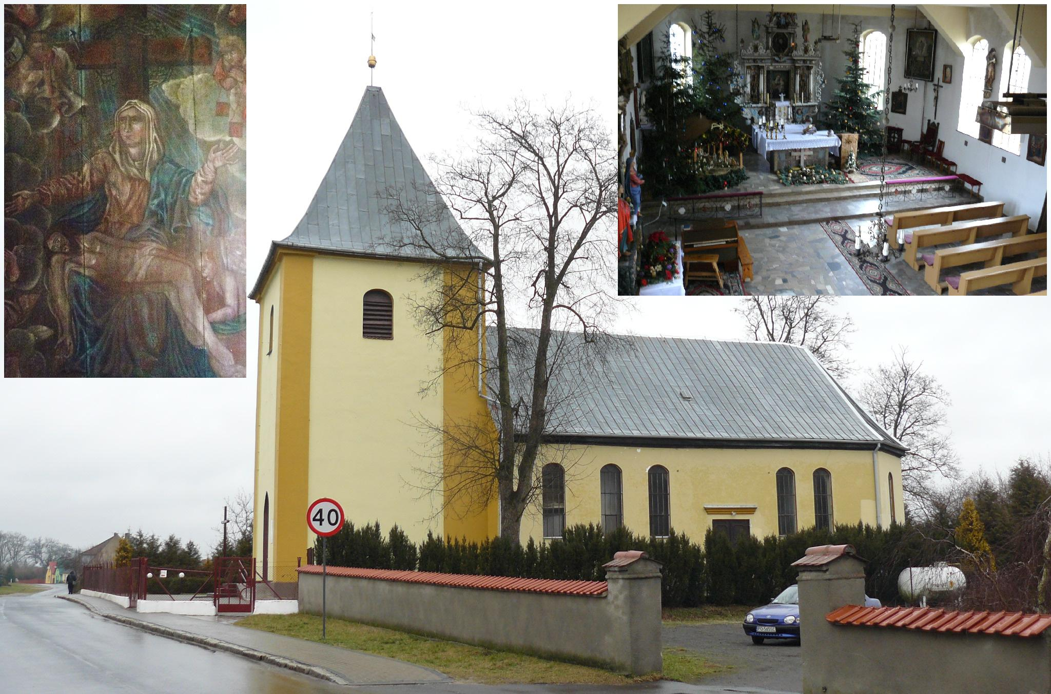 Biała. The Church. The interior and painting on wood.